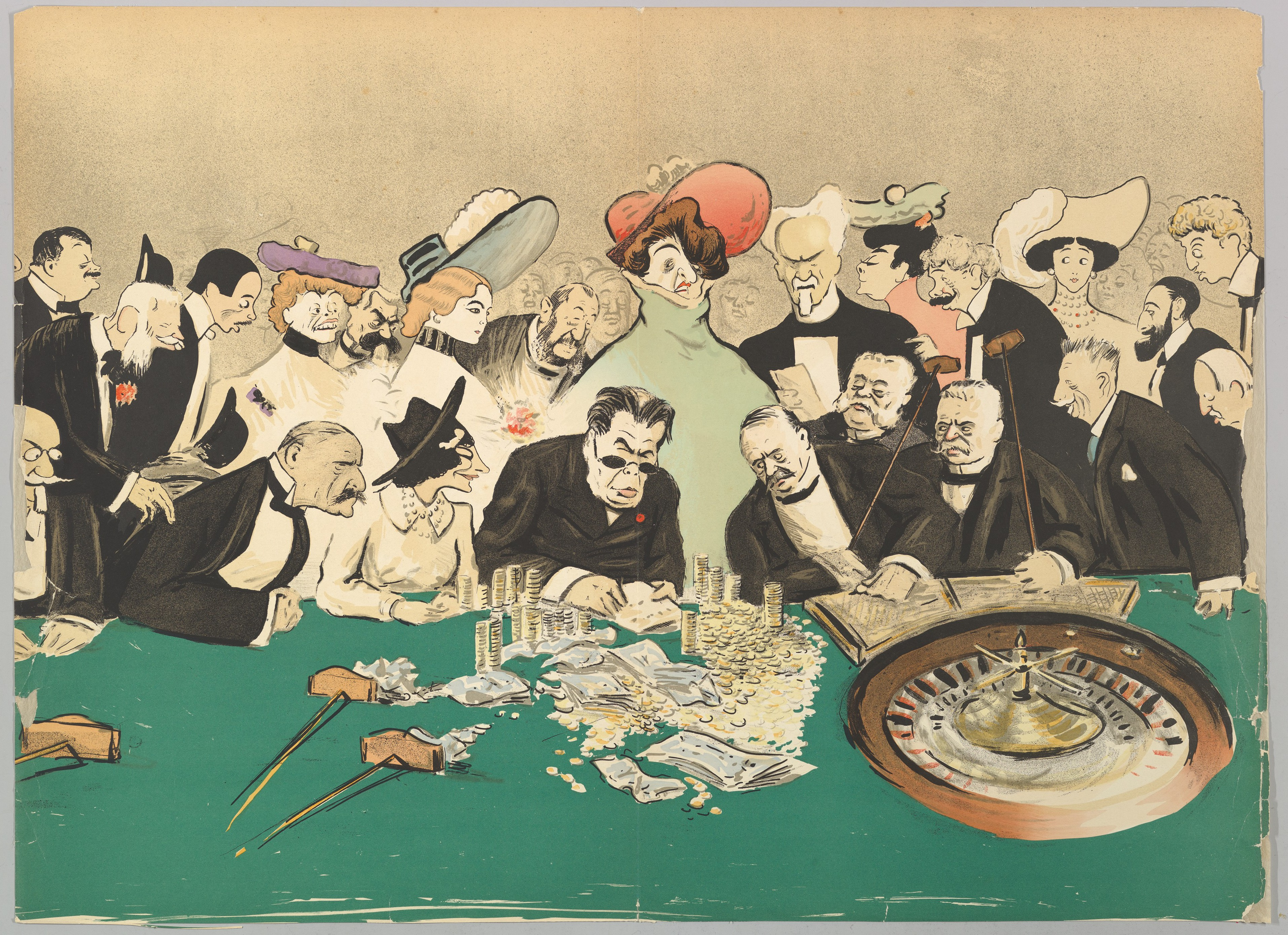 Print; Prints